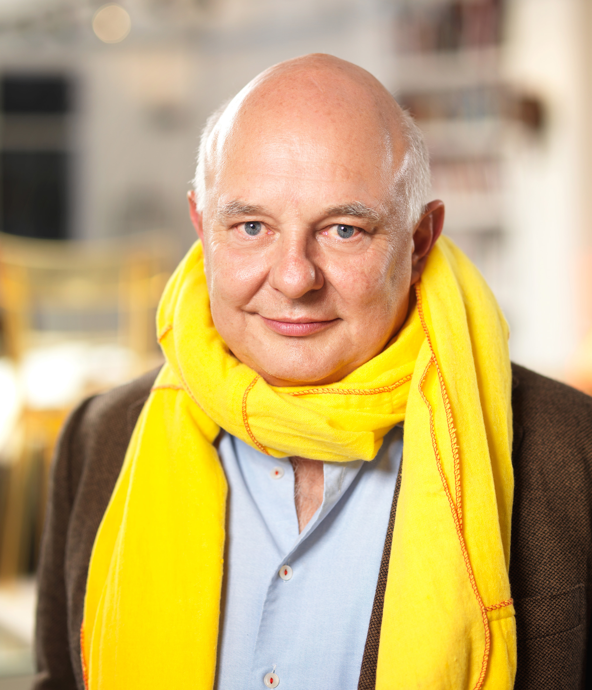 Copyright: rolf sachs fun ction. Photo by Byron Slater